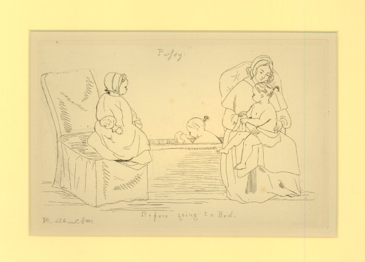 An etching showing Princess Vicky in the bath and with her nurse, drawn and engraved by Queen Victoria